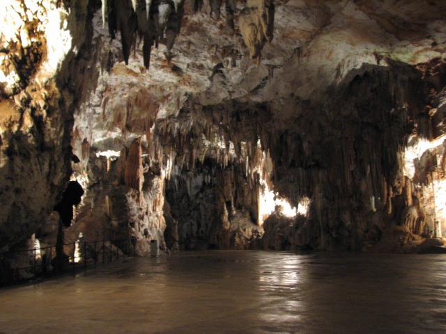 Postojna cave - The Concert Hall